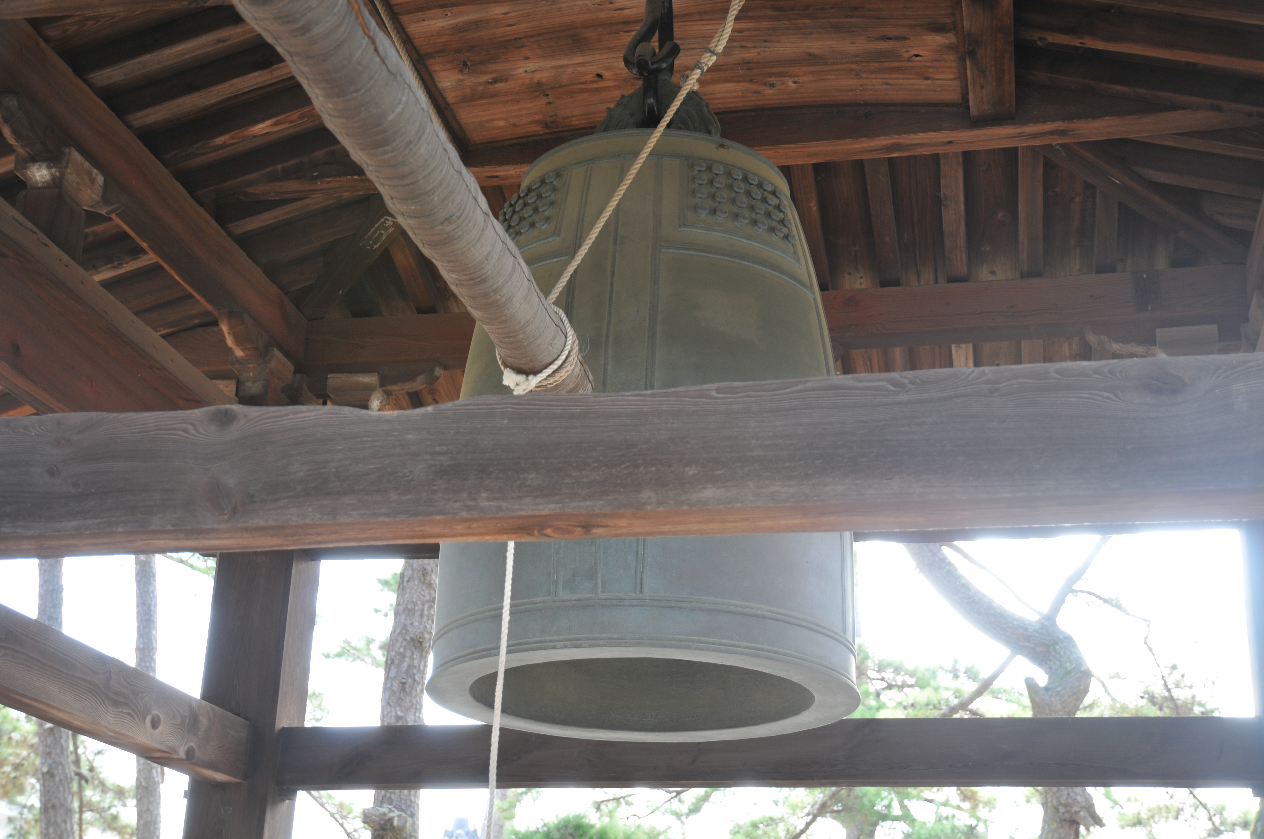 Temple bell(Japan's national important cultural property), Kokubun-ji